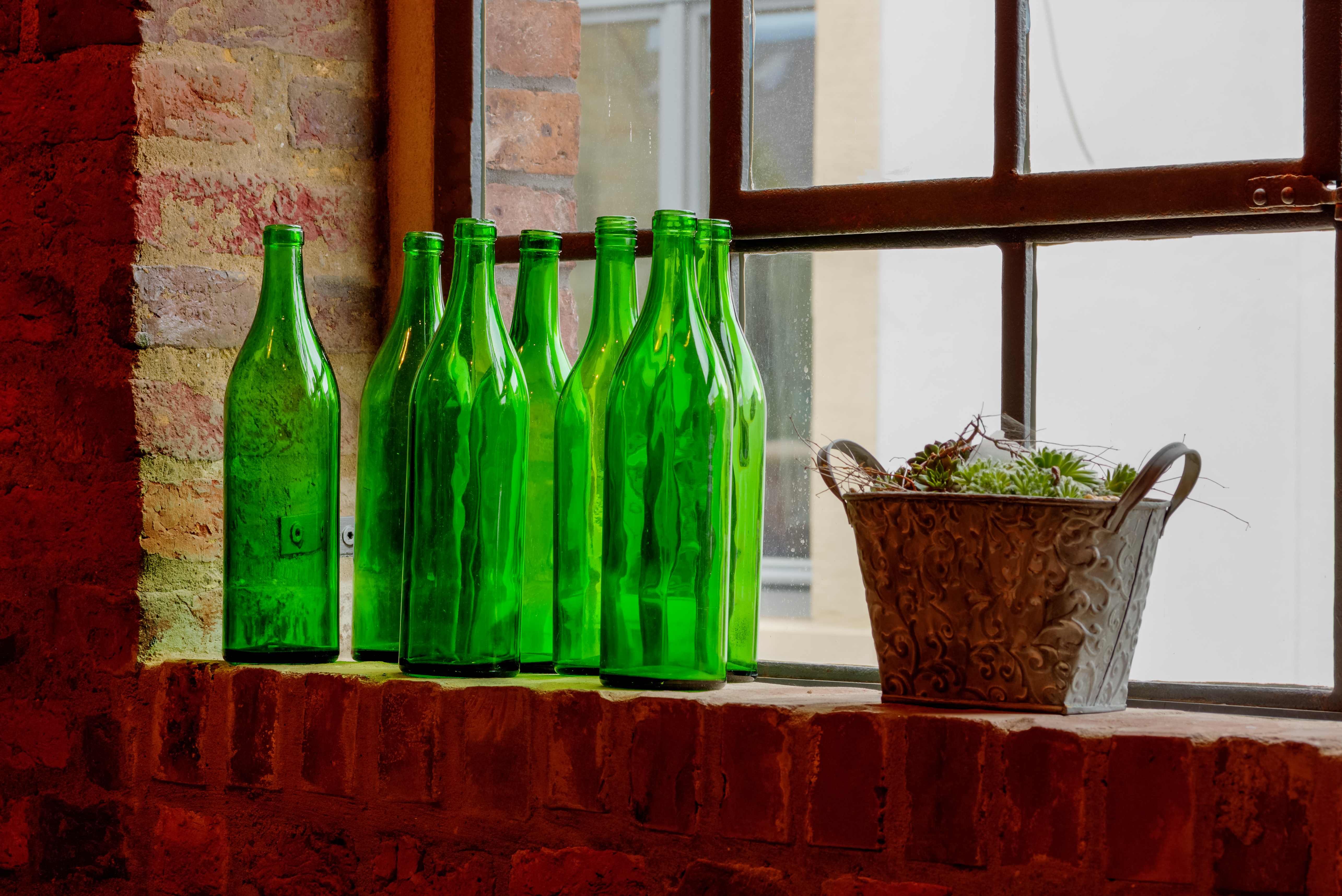 Interior (bottles) of the old distillery Löhning, Dülmen, North Rhine-Westphalia, Germany